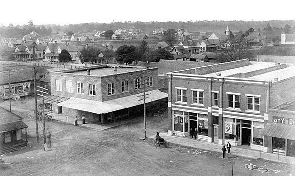 Nashville Square in Nashville, Georgia, looking southwest.